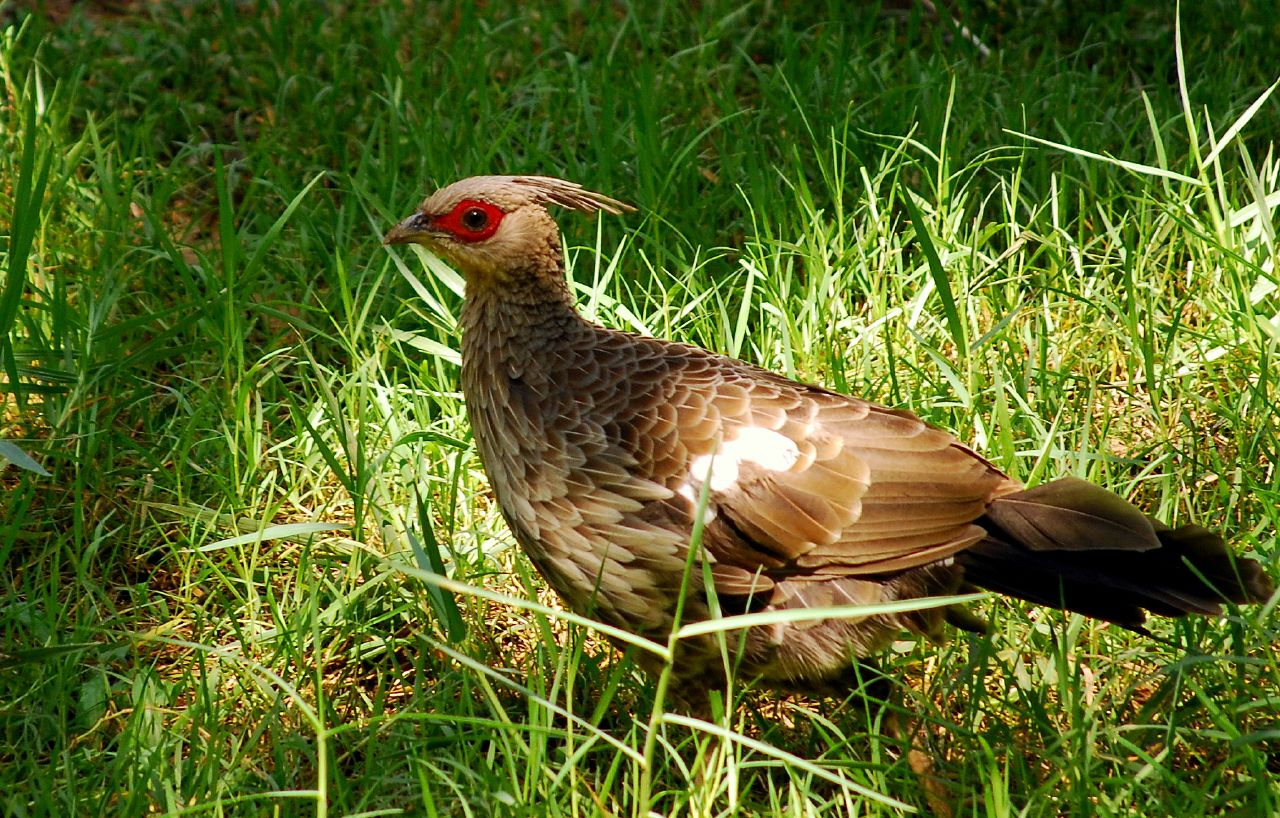 Female Kalij Pheasant (Lophura leucomelanos) in India.